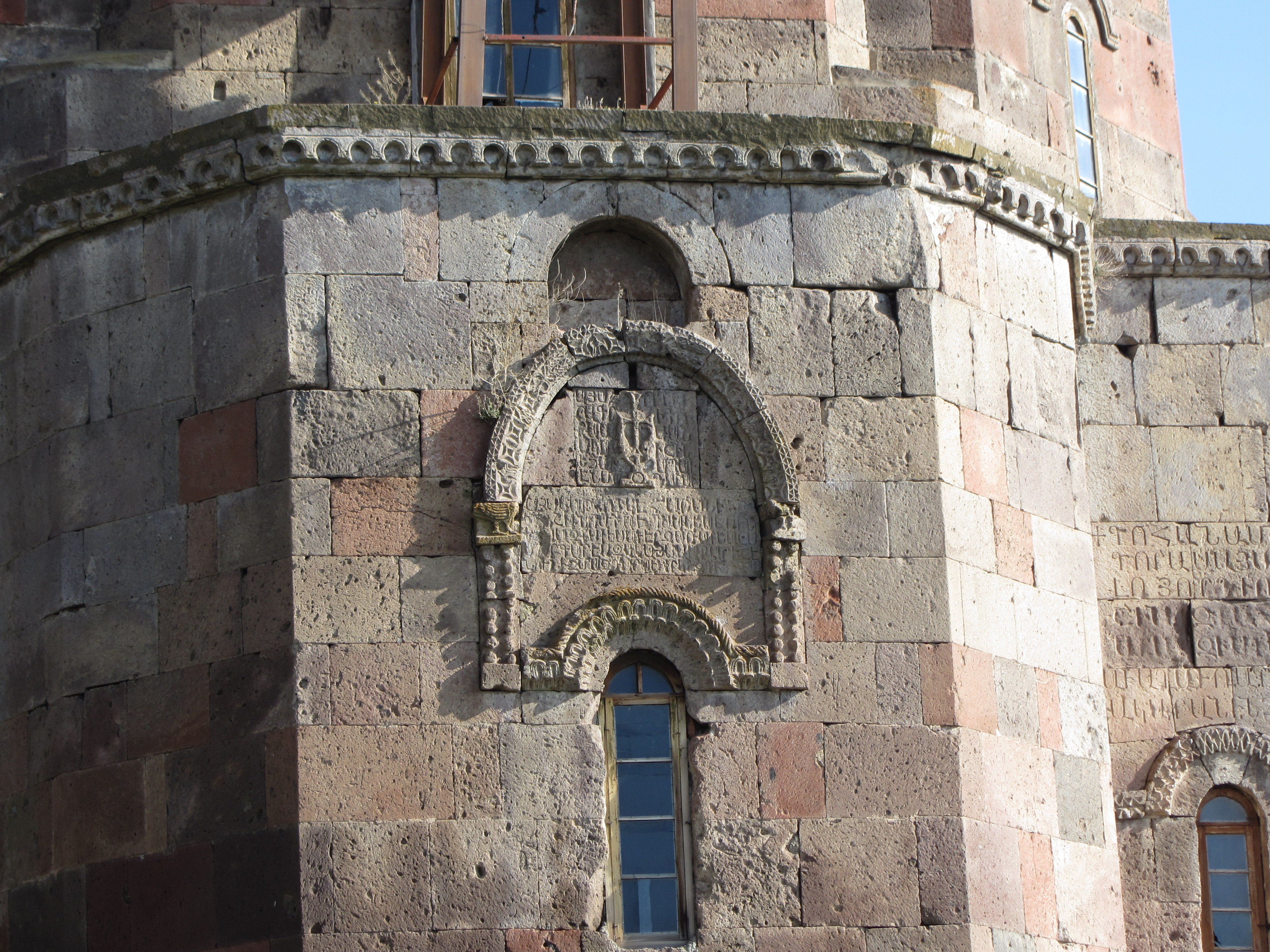 Mastara, Surb Hovanes Church (6c.)